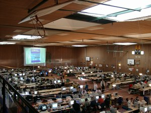 A medium-sized LAN party. Approximately 300 people in a sports hall in northern Germany.